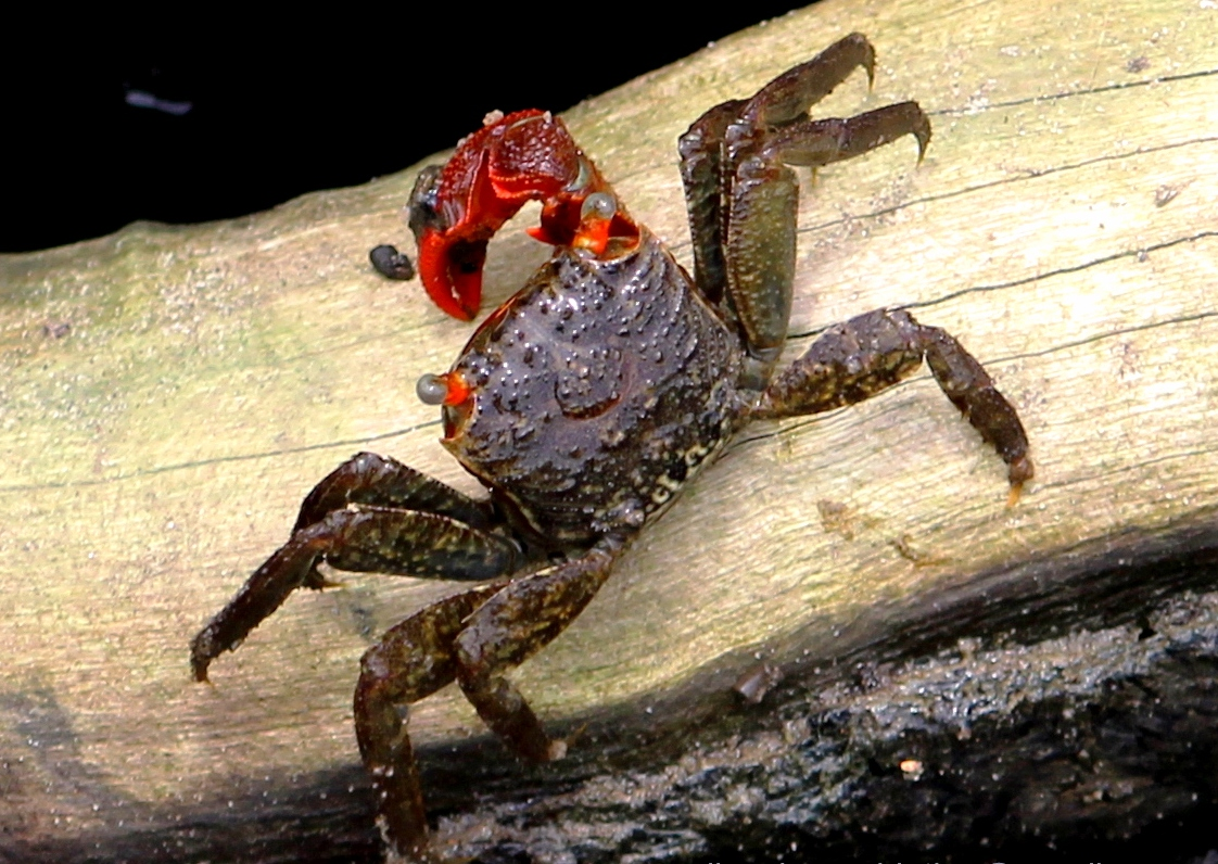 crab from pazhayangadi,Kerala,Kannur,India